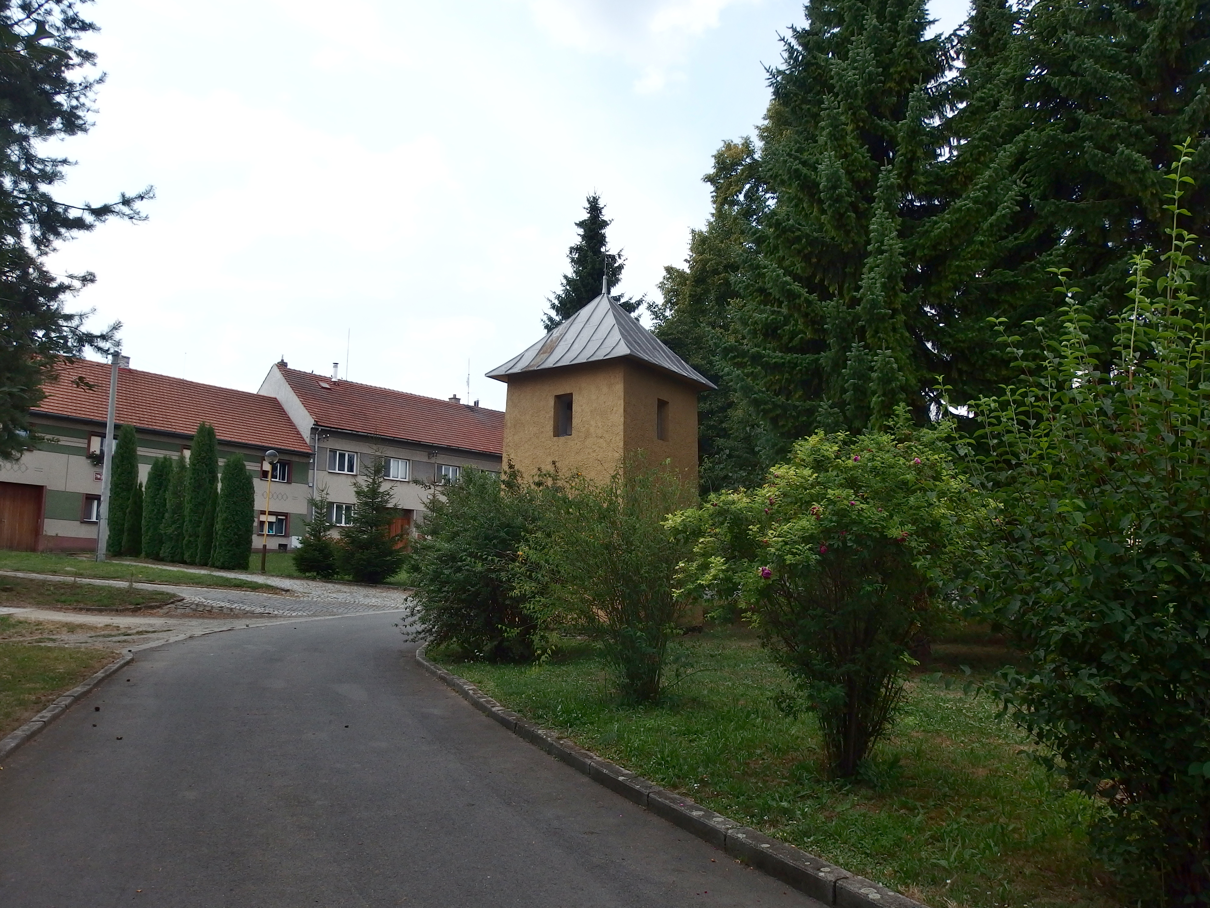 Rataje, Kroměříž District, Czech Republic, part Popovice.